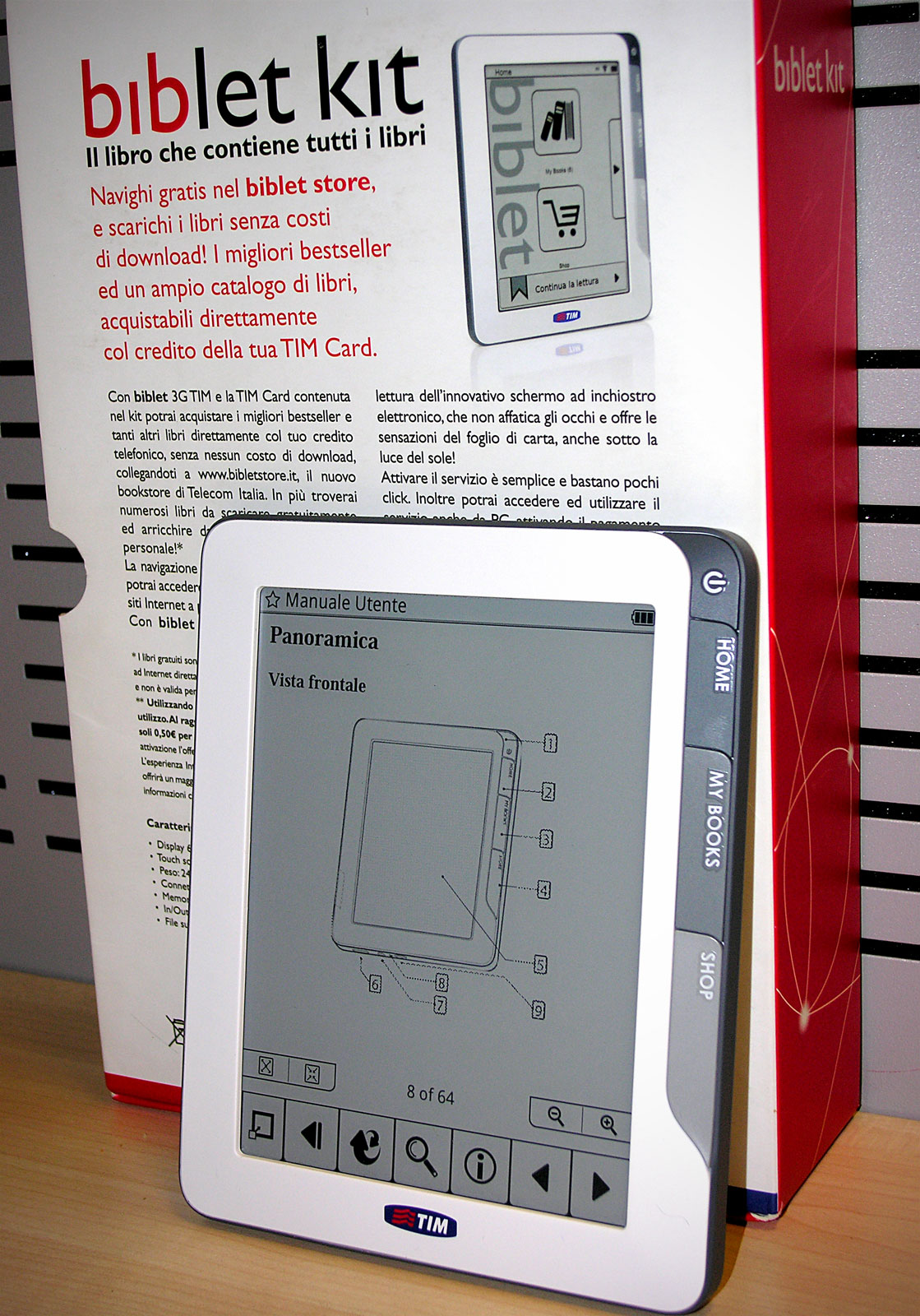 Biblet Ebook Reader (Sagem Wireless)